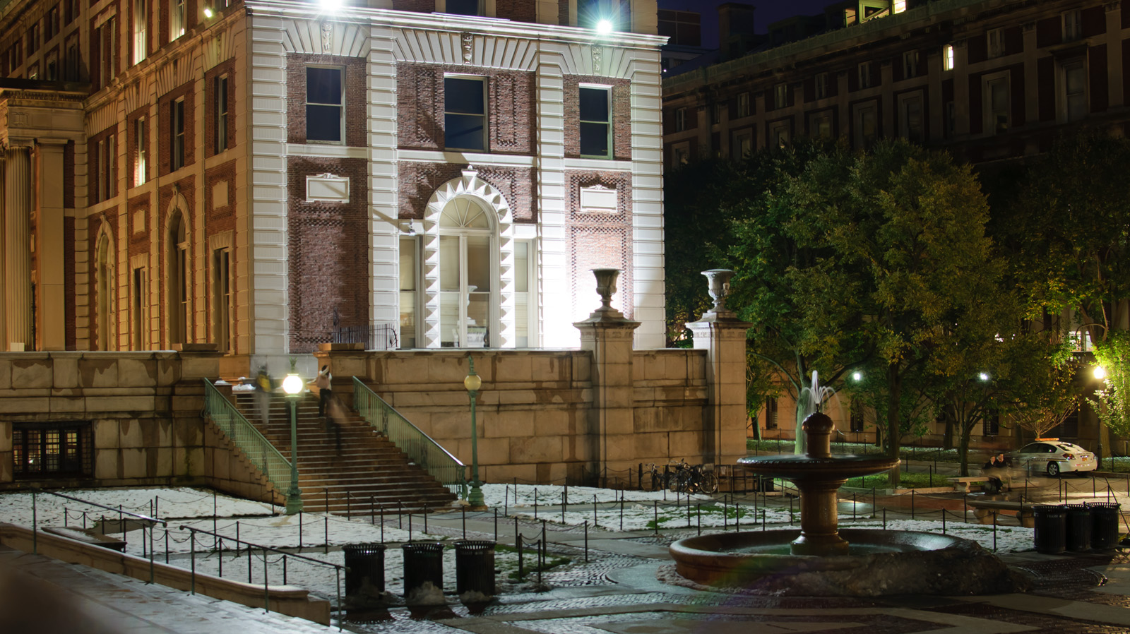 Doing some time-exposure night photography on the Columbia campus after dark. For timed exposures at night, Columbia University is about as photogenic a venue as I can find. The building brightly lit is Kent, which houses the excellent East Asian Studies department and its associated library. Columbia University is located in the Morningside Heights neighborhood of Manhattan, bordering Harlem to the north and east and Upper West Side to the south. The McKim, Meade, and White architectural team designed the current campus in the late 1890s, replacing older campuses further downtown. Columbia University is one of the eight members of the prestigious Ivy League; the other seven, all in the Northeastern US, are Dartmouth, Harvard, Brown, Yale, Cornell, Princeton, and Pennsylvania.